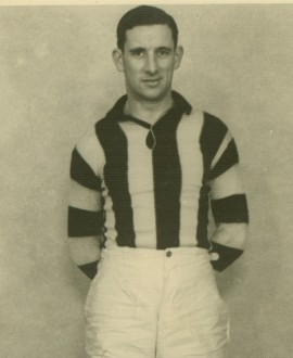 Photograph of Jack Regan from 1930-1943